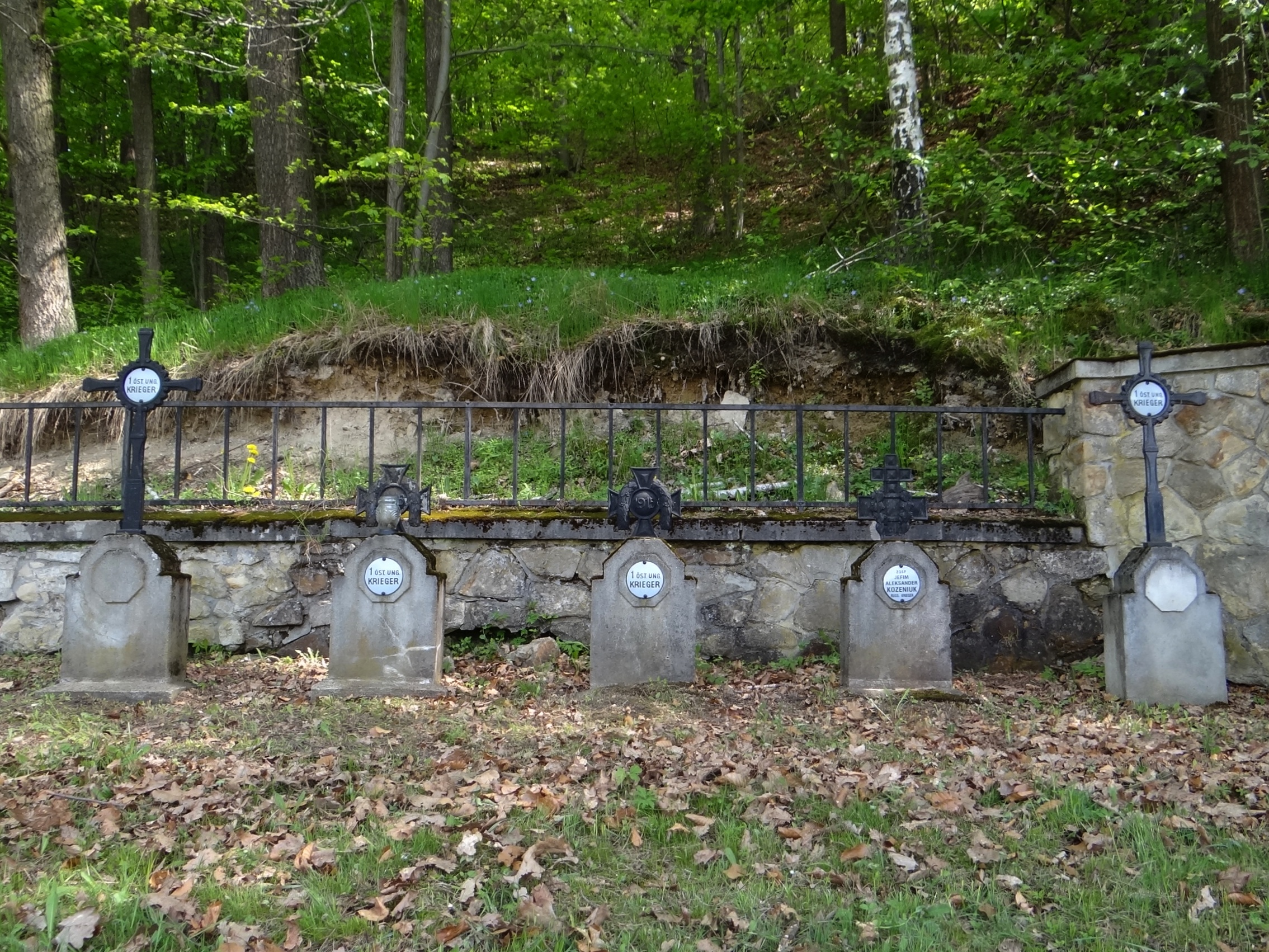 World War I Cemetery nr 150 in Chojnik